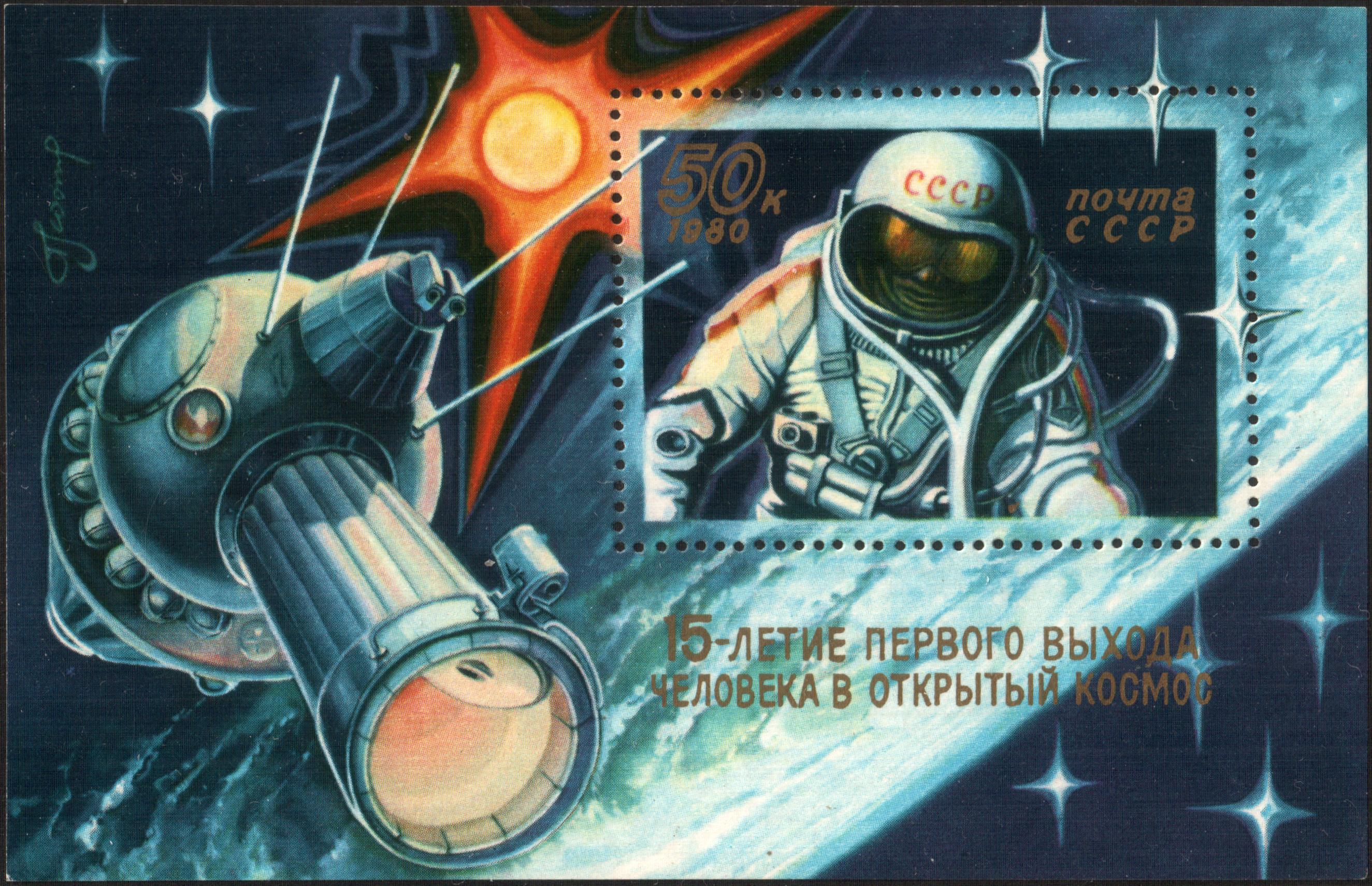 Sheet of 1